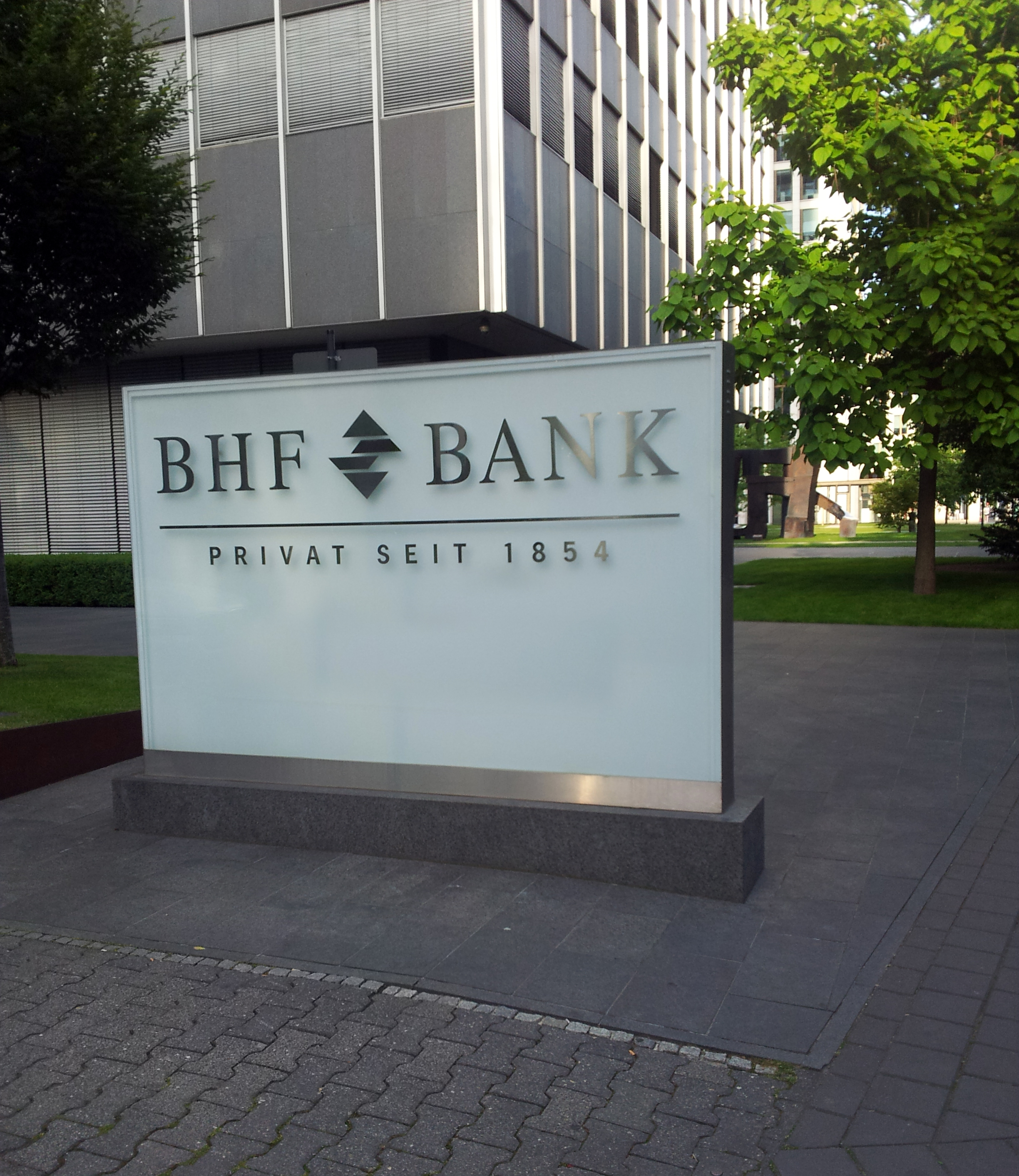 Sign at the headquarters of the BHF Bank. The building in the background was designed by Sepp Ruf.